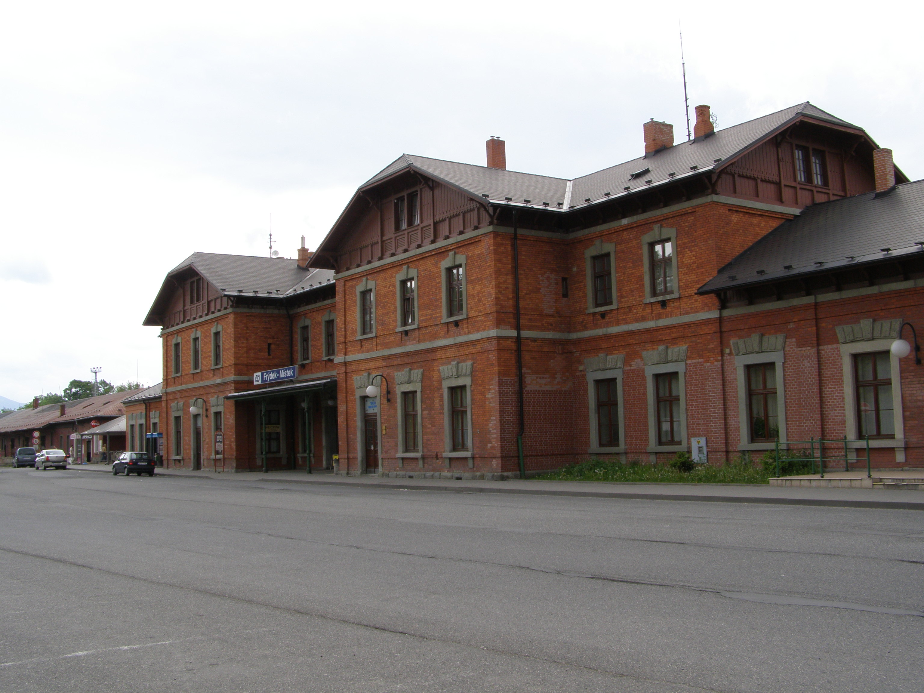 Frýdek-Místek, railway station